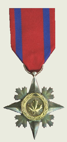 An image of the Star of Courage